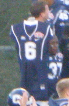 Number 37 (either Jonathan Jean-Louis or Joss Tillard) hold aloft Jasper Howard's #6 jersey following Connecticut's win in the en:2010 Bowl.